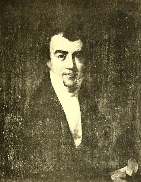 Rev. John Newland Maffitt from page 18A of Maffitt, Emma (Martin) Mrs. "The life and services of John Newland Maffitt." New York: The Neale Publishing Company, 1906.